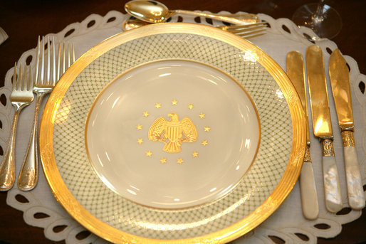 The George W. Bush State China, unveiled Wednesday, Jan. 7, 2009, at the White House by Mrs. Laura Bush, has a gold rim with a green basket-weave pattern and a historically-inspired gold eagle throughout the 14-piece place setting. The 320-place setting pattern will allow the White House to accommodate larger Rose Garden dinners and cover any breakage. The china was paid for by the White House Historical Association Acquisition Trust, a non-profit organization.